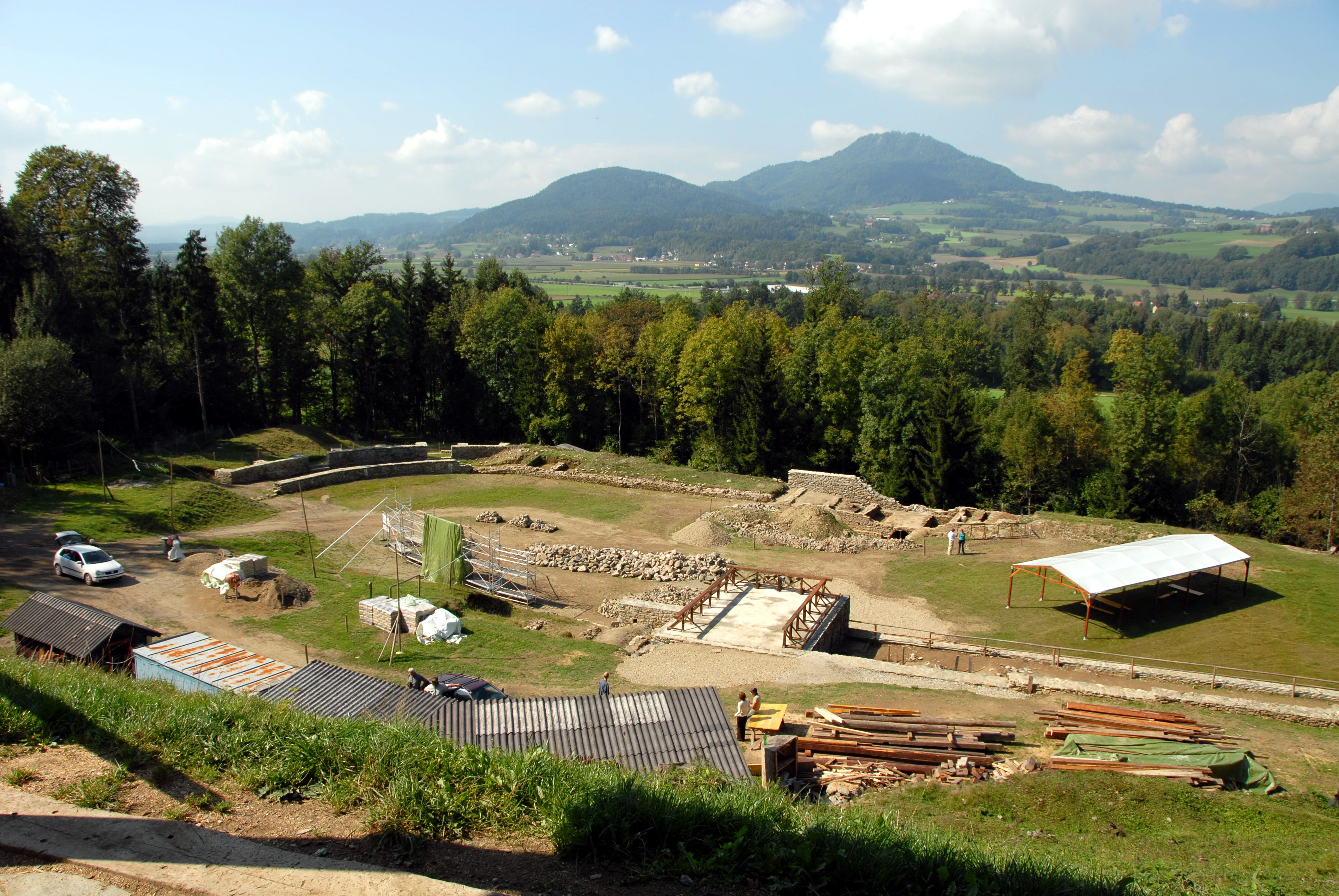 Southern and central part of the excavation site of the Roman arena at the ancient Noricum capital Virunum II, market town Maria Saal, district Klagenfurt Land, Carinthia, Austria, EU